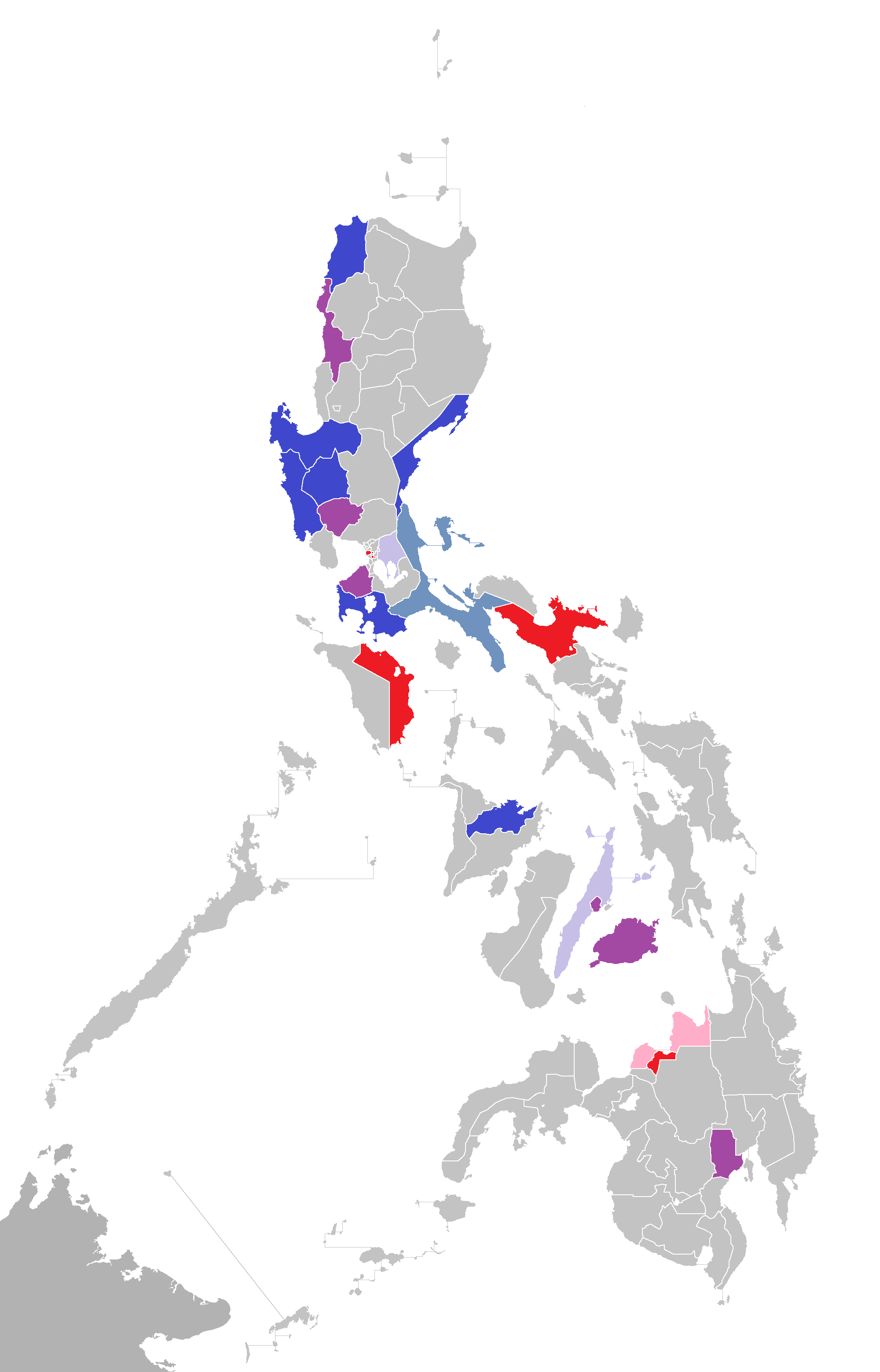 Current provinces that contain the birthplace or hometown of Philippine presidents (blue), vice presidents (red) or both (purple) Some towns or cities may have either became independent from a province, or was transferred to another province. For those instances, the original province has a lighter shade.